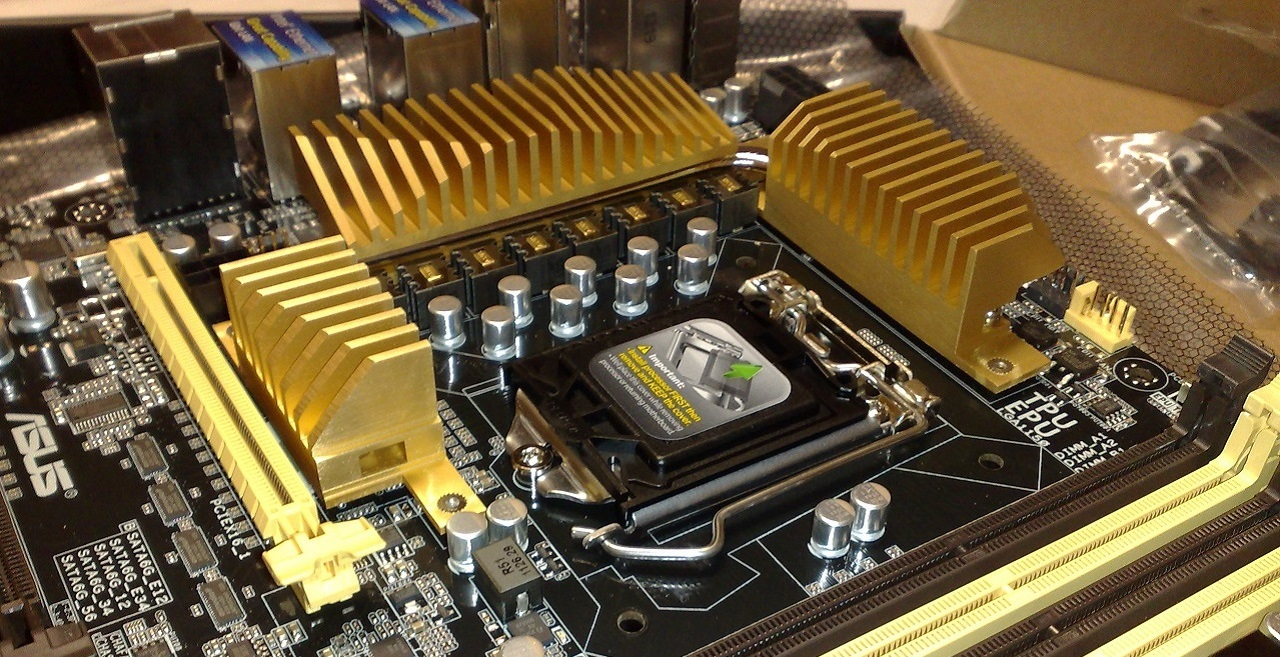 Voltage regulator module (parts external to the processor's fully integrated voltage regulator) on an ASUS Z87-WS computer motherboard, covered with heat sinks; high-grade chokes are clearly visible